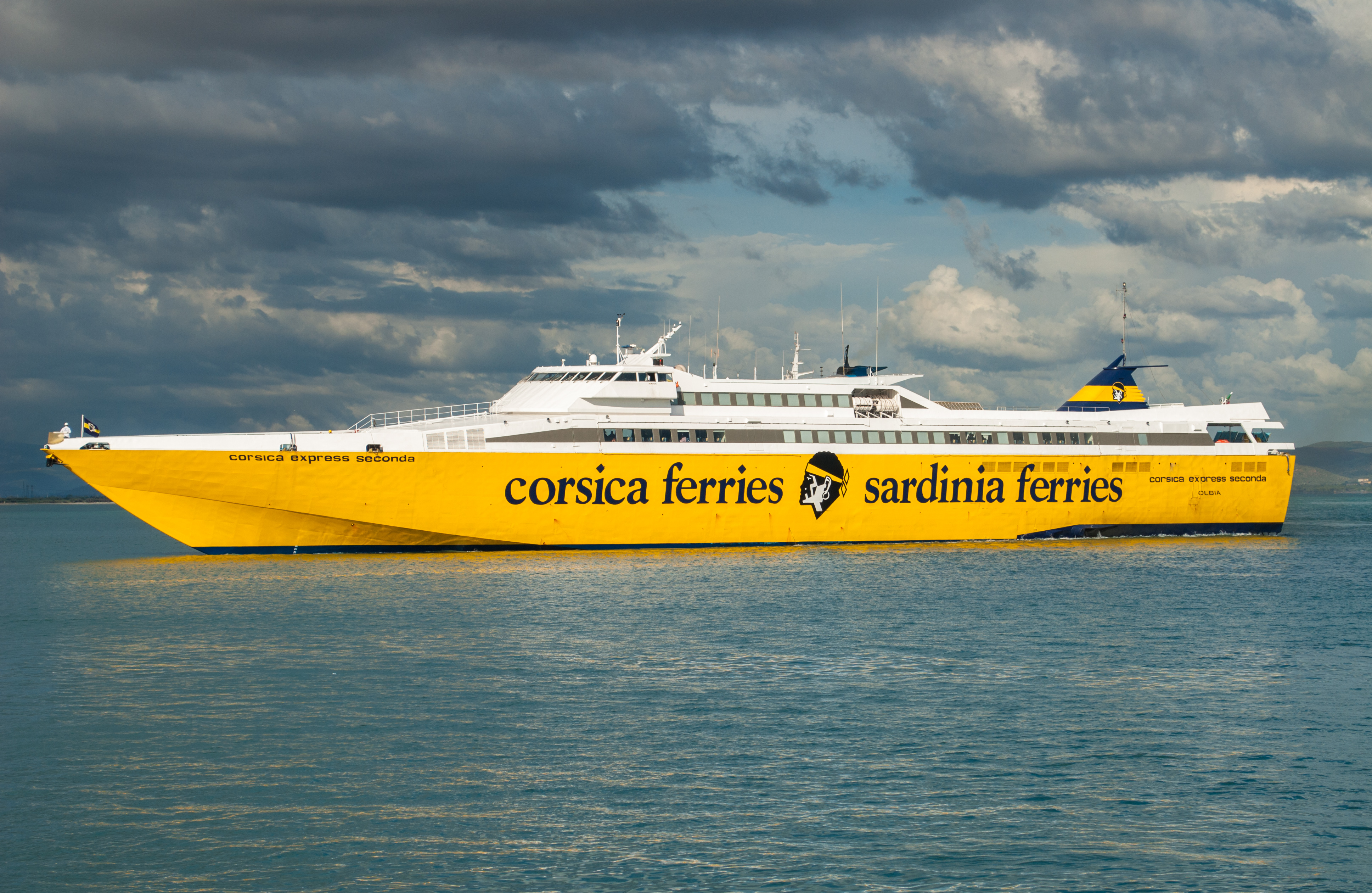 Corsica Express Seconda arriving to Piombino Port